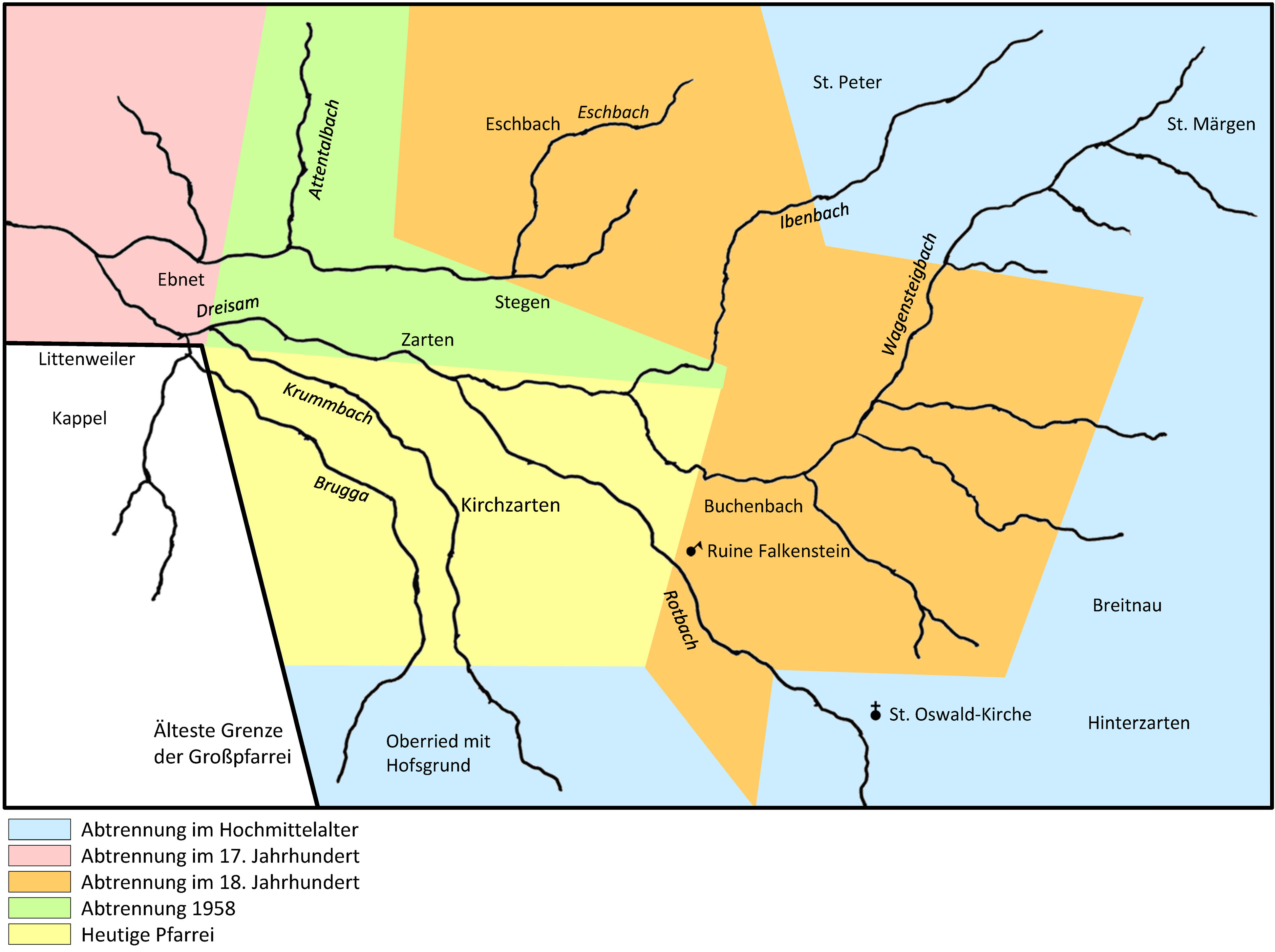 Historical map of the parish of Kirchzarten, Germany